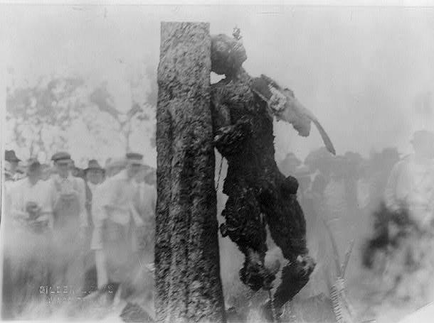 A photograph of the lynching of Jesse Washington in progress. Taken by Fred Gildersleeve on May 15, 1916.